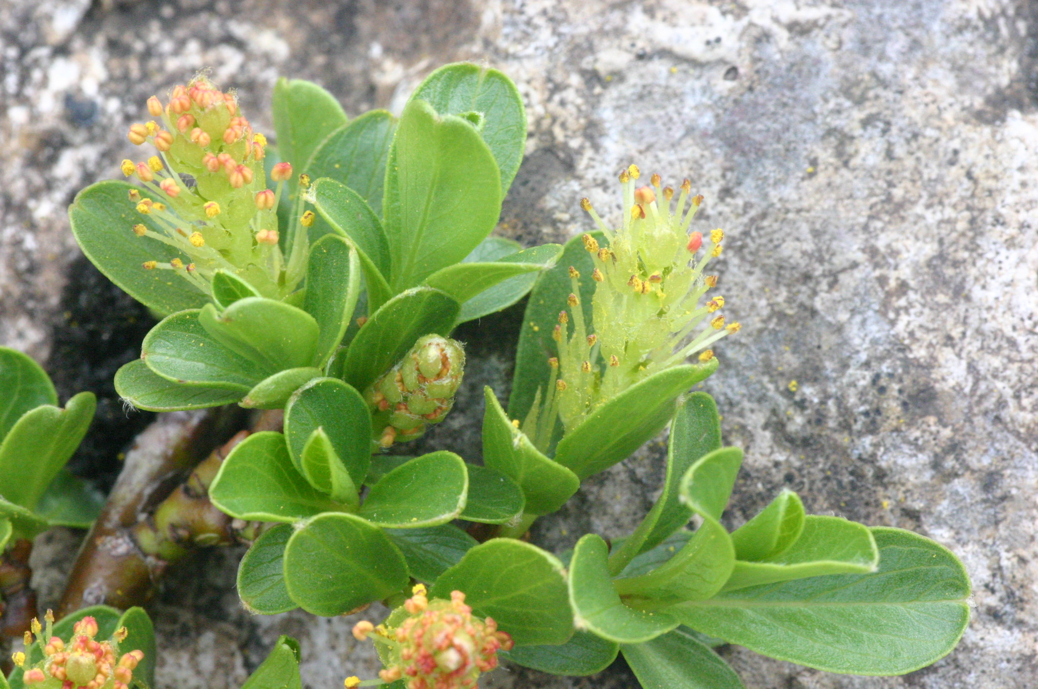 Salix retusa